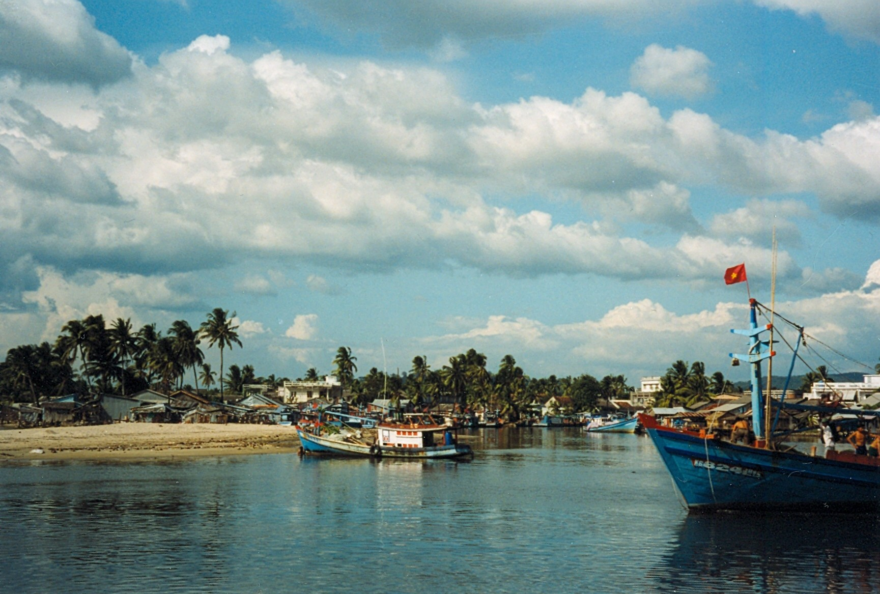 Harbour of Dương Đông on Phú Quốc Island, Vietnam.